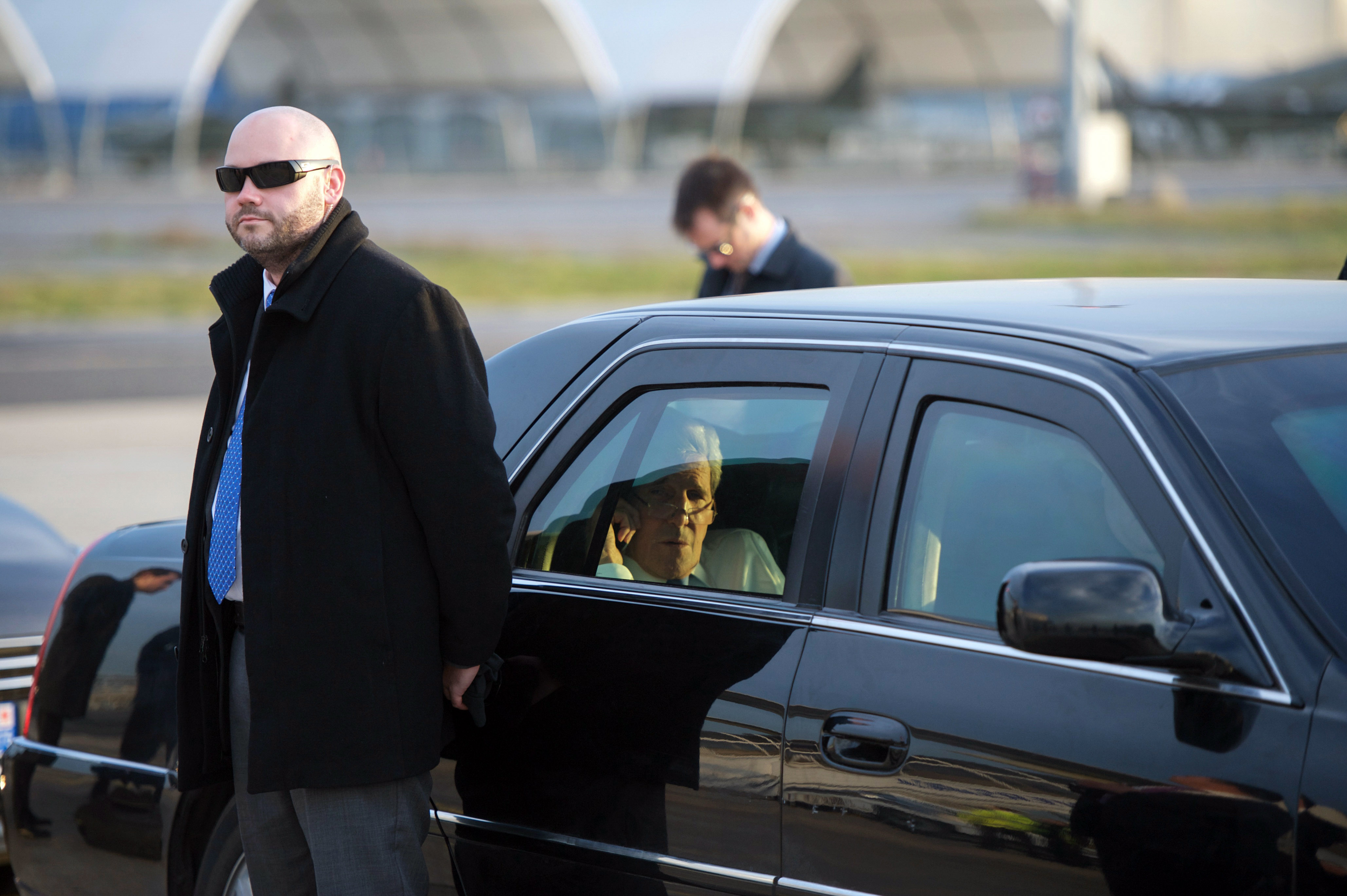 A Diplomatic Security Service agent stands watch as U.S. Secretary of State John Kerry makes a telephone call before departing from LeBourget Airport in Paris, France, on January 16, 2015, after commemorating the victims of last week's Paris shootings. [State Department photo/ Public Domain]